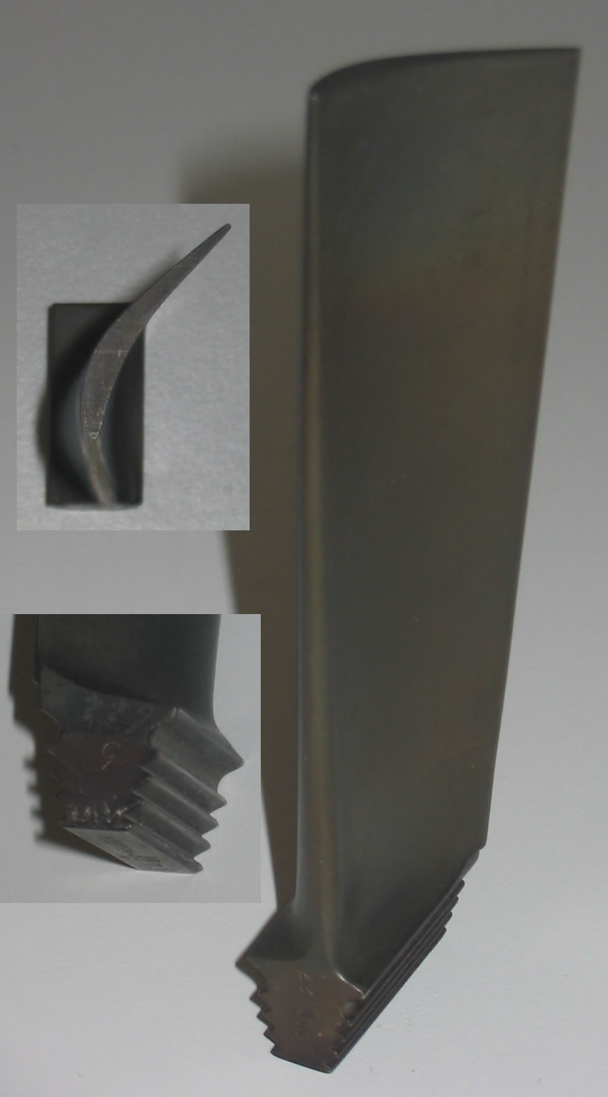 Used blade of a General Electric J79 aero engine of a Lockheed F-104 "Starfighter", with details